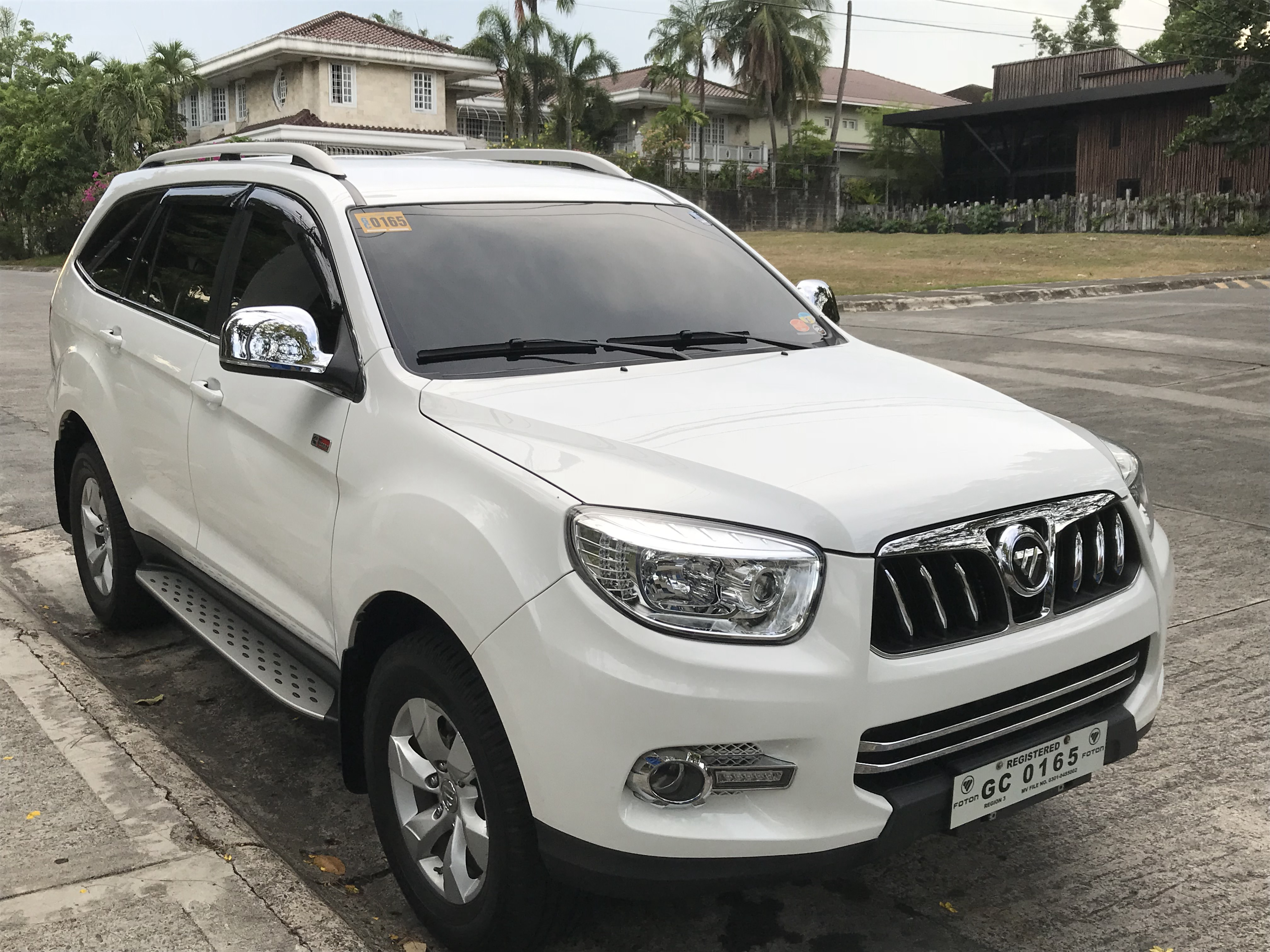 Front side of Foton Toplander parked in Corinthian Gardens.